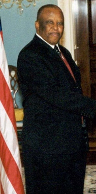 Photograph of President of Botswana Festus Mogae in Washington DC, February 26, 2002.